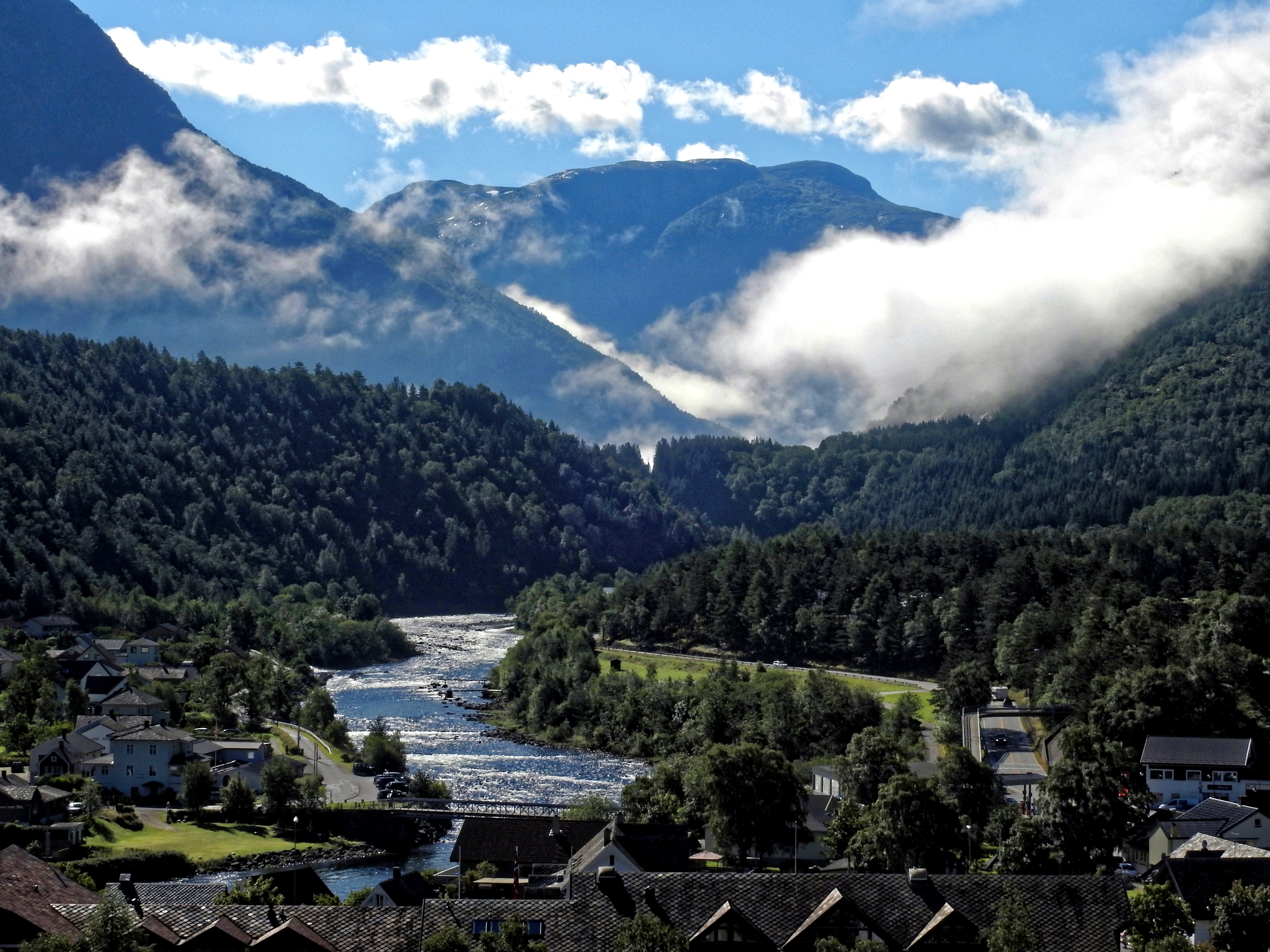 Eidfjord in Norway.